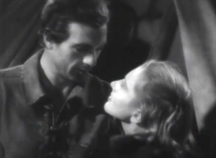 Gary Cooper and Jean Arthur in the film trailer for The Plainsman, 1936